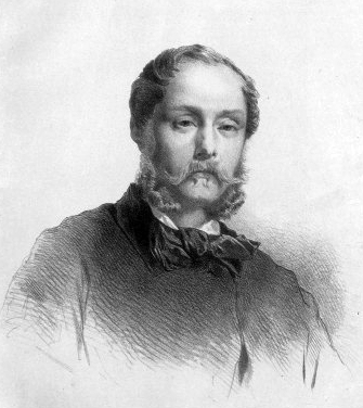 Portrait of French painter Charles Chaplin (1825–1891) by Célestin Nanteuil (1813–1873) after Vincent Vidal (1811–1887)